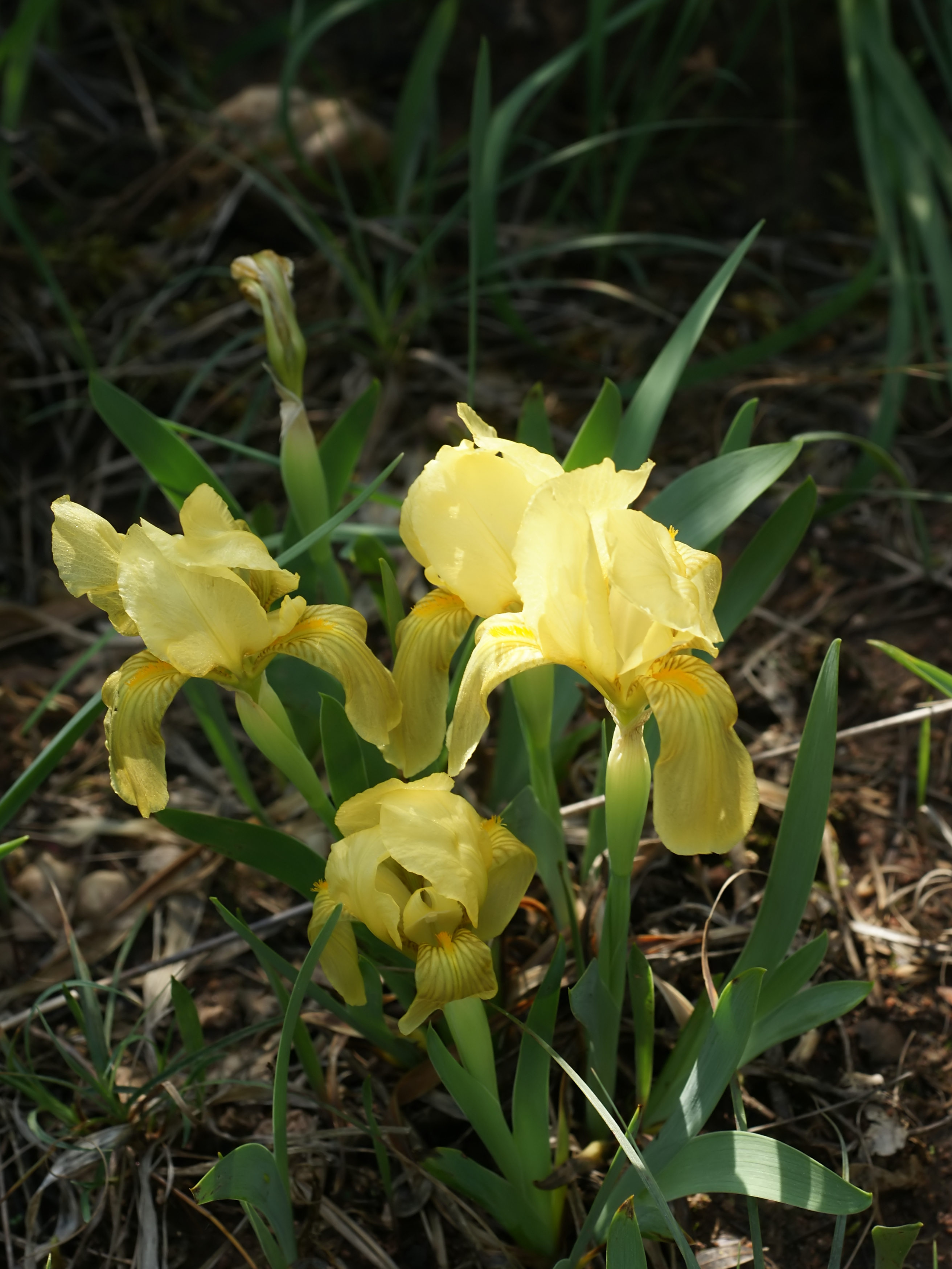 Variable Bearded Iris at Bois du Rouquan, Var, France